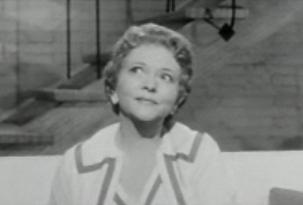 Jessie Royce Landis in I Married a Woman - trailer (cropped screenshot)